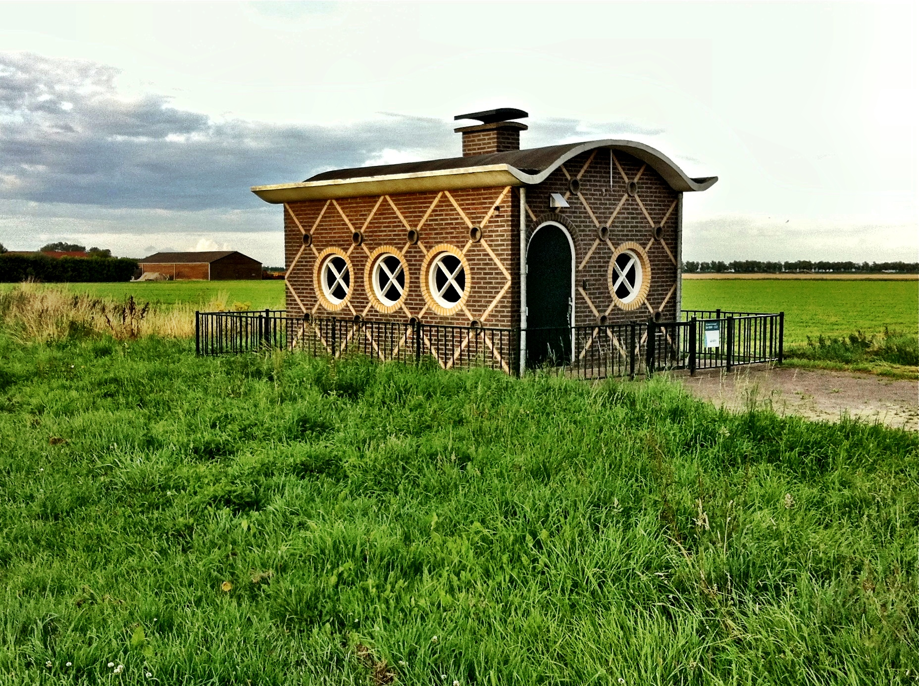 Hydrophore station 1955. Kortgene (Zeeland, The Netherlands) Architect: Sybold van Ravesteyn.